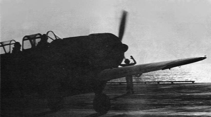 A "Japanese" aircraft taking off from the U.S. Navy aircraft carrier USS Yorktown (CVS-10) during the filming of the movie "Tora! Tora! Tora!", in December 1968. Most "Japanese" aircraft were modified North American T-6 Texan trainers. Note the deck crewman in regular USN clothing in the background.